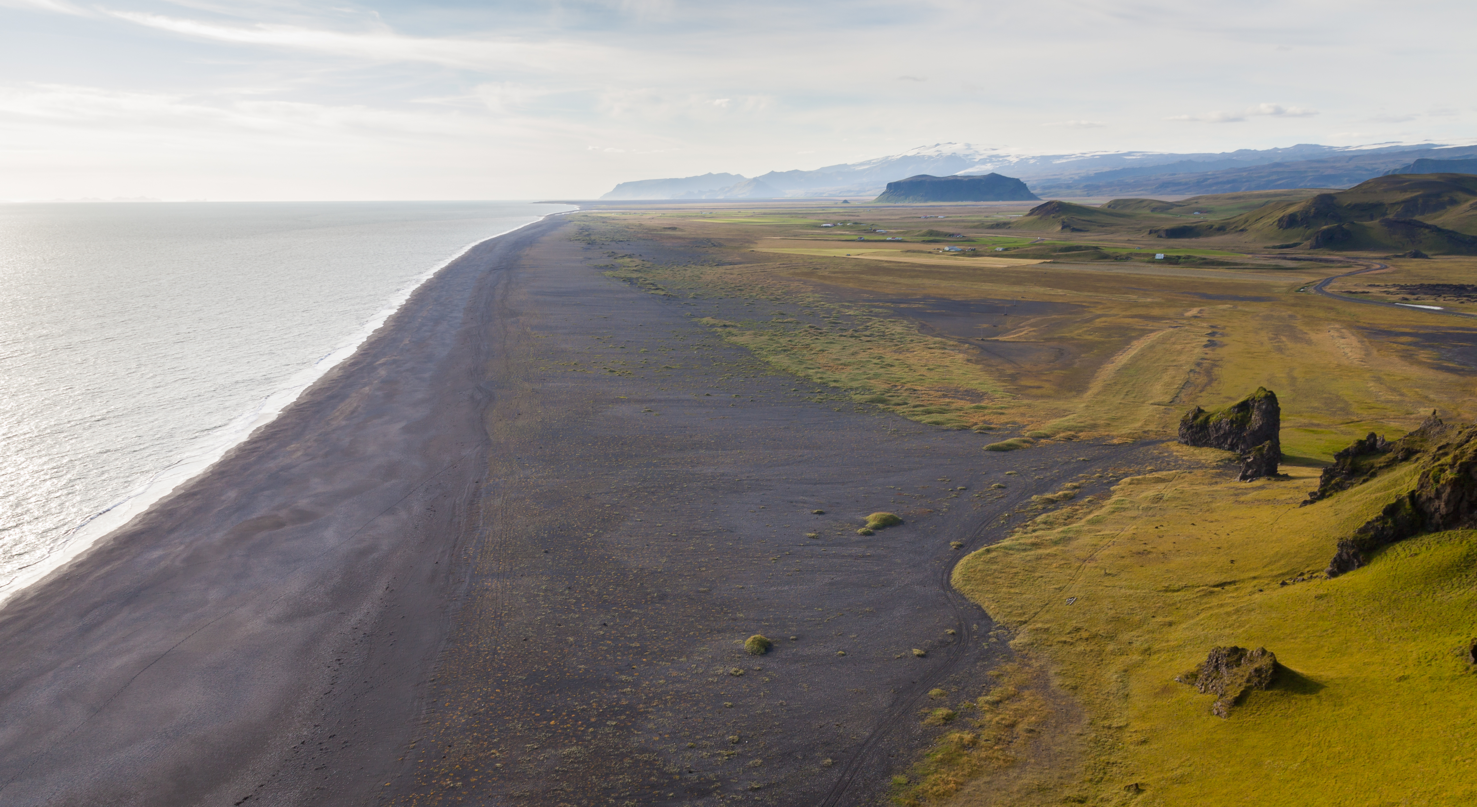 Dyrhólaey, Suðurland, Iceland